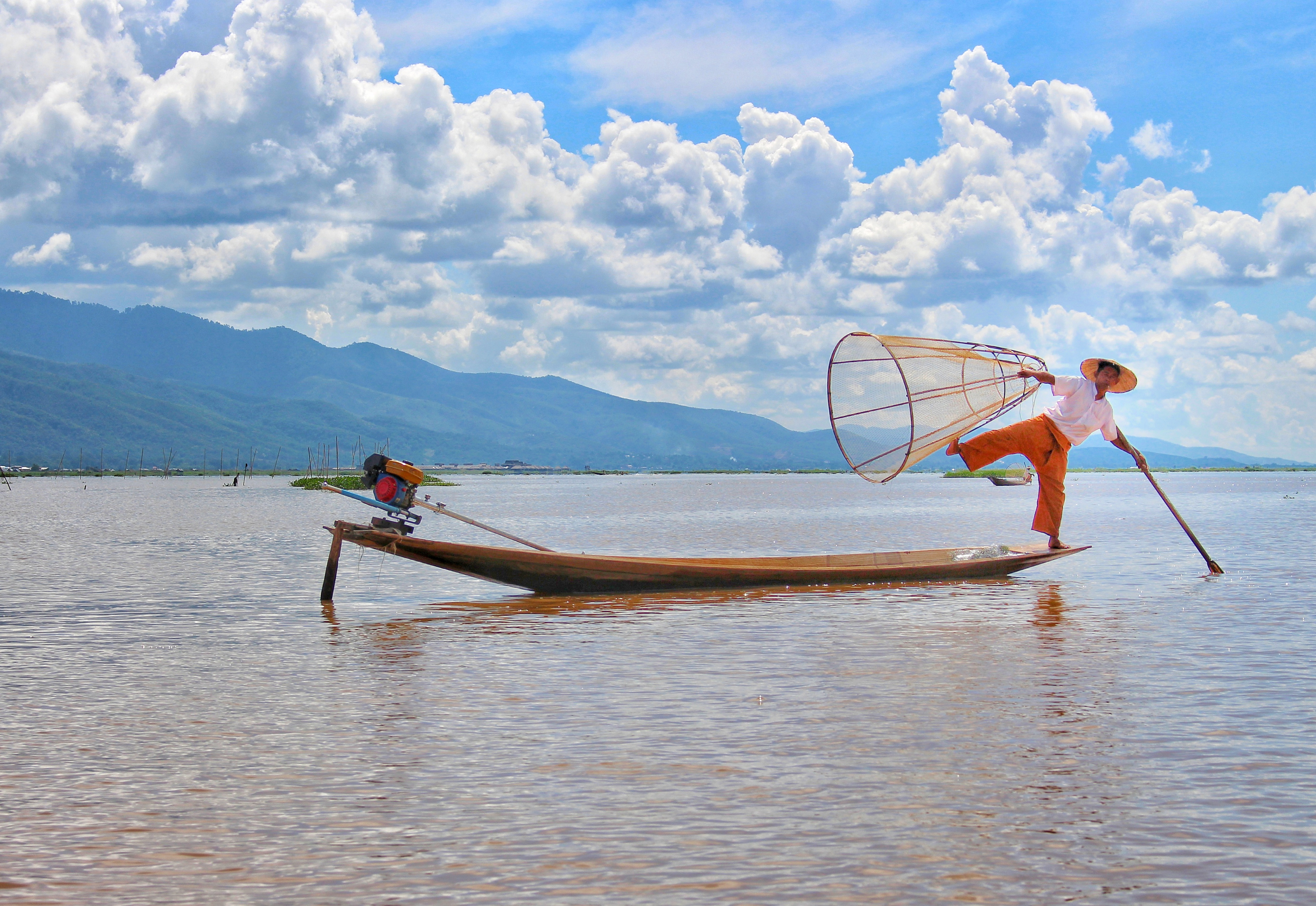 A single leg rower with a fishing net at Inle Lake, Myanmar